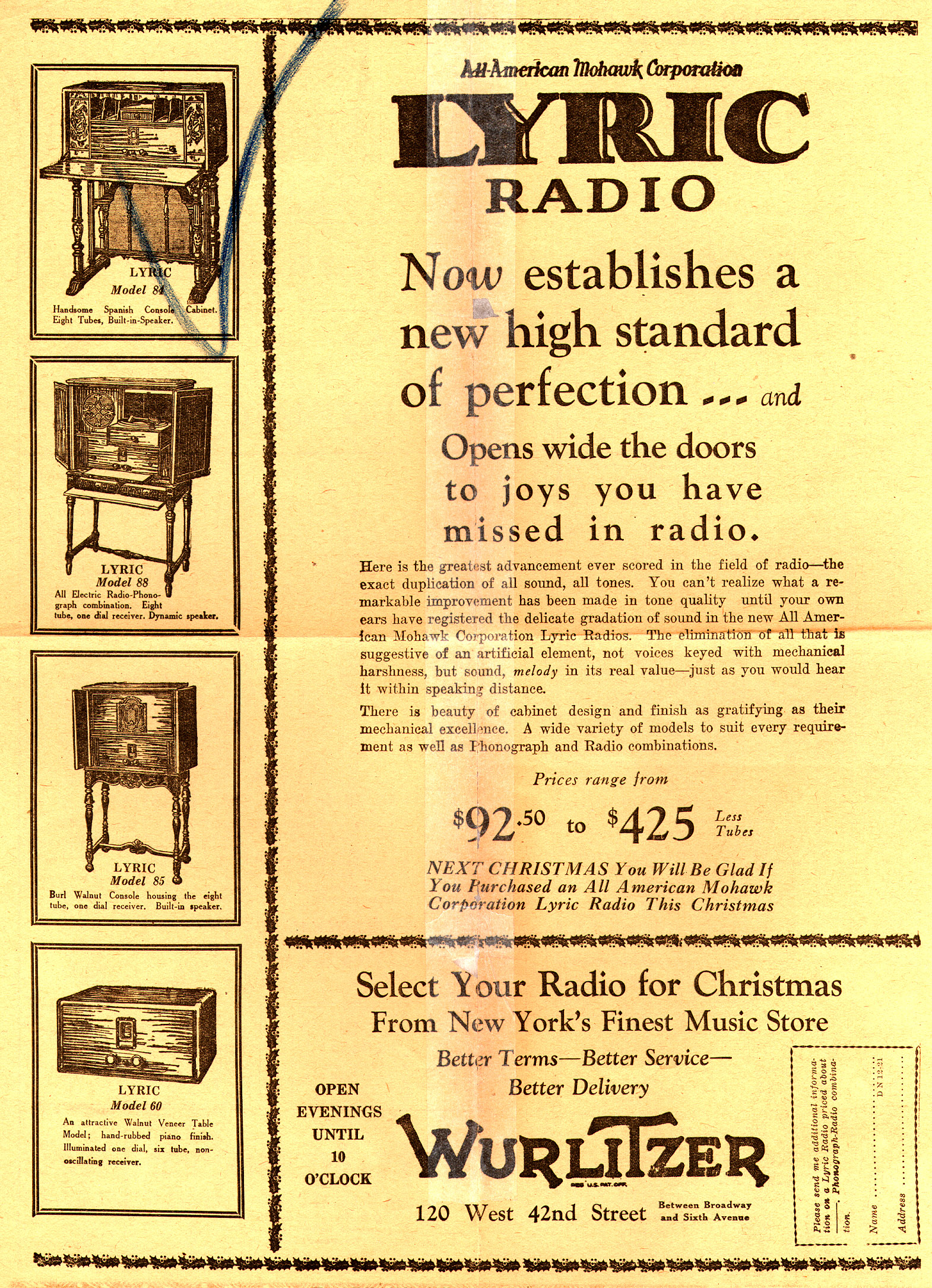 1920s print ad for American Mohawk Lyric radios as manfufactured by Wurlitzer